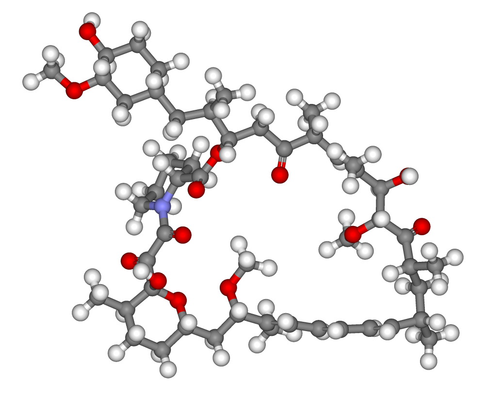 Ball-and-stick model of sirolimus (rapamycin). Created using Accelrys DS Visualizer Pro 1.6 and GIMP.